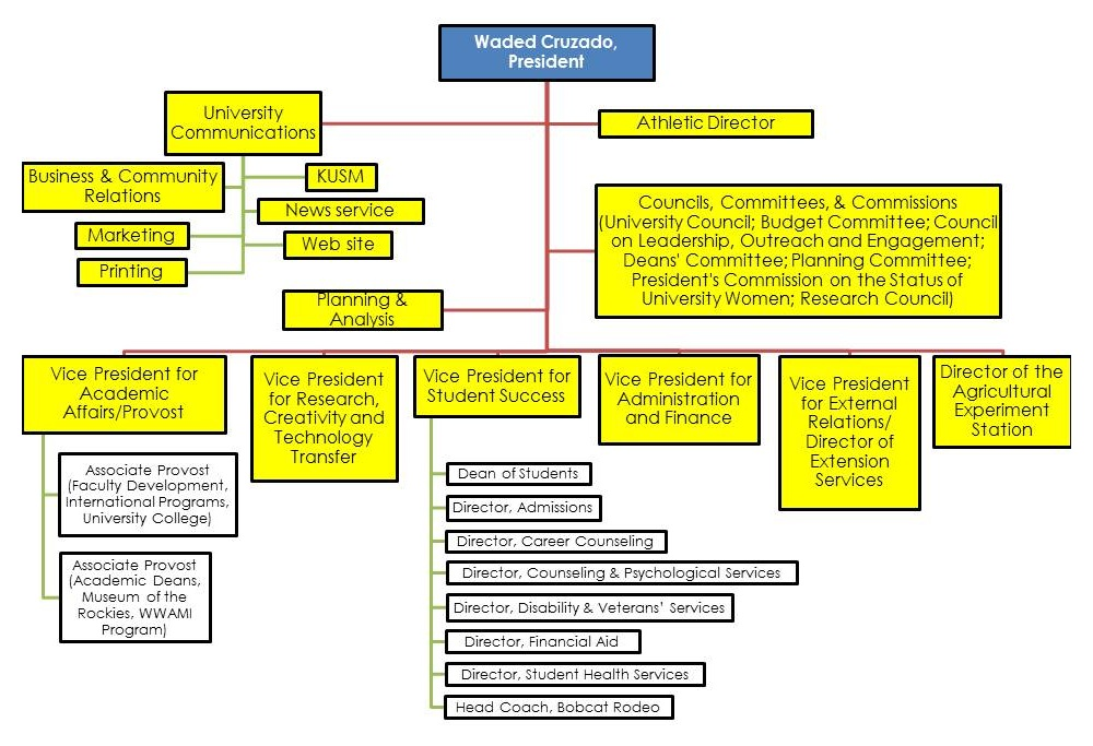 Governance chart of Montana State University in Bozeman, Montana, as of August 2013.